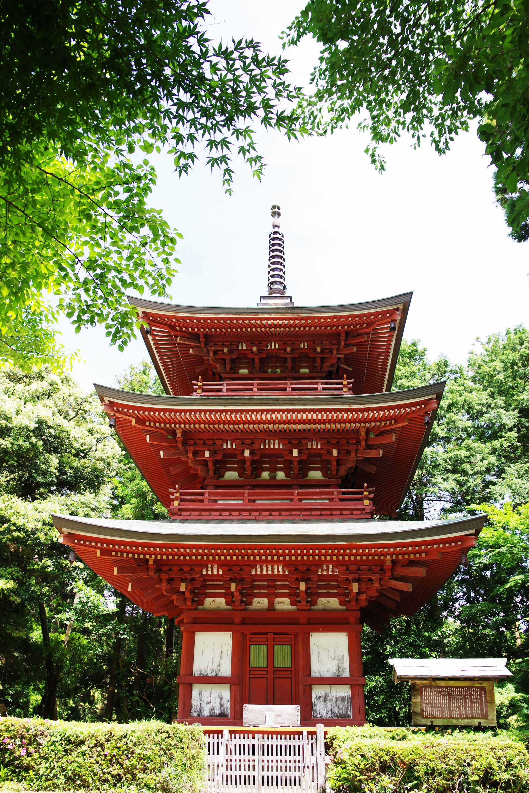 Three-storied pagoda in Yusanji temple, Fukuroi city, Shizuoka prefecture, Japan